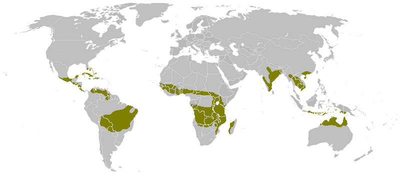 Worldwide zones of tropical savannah climate (Köppen Aw)